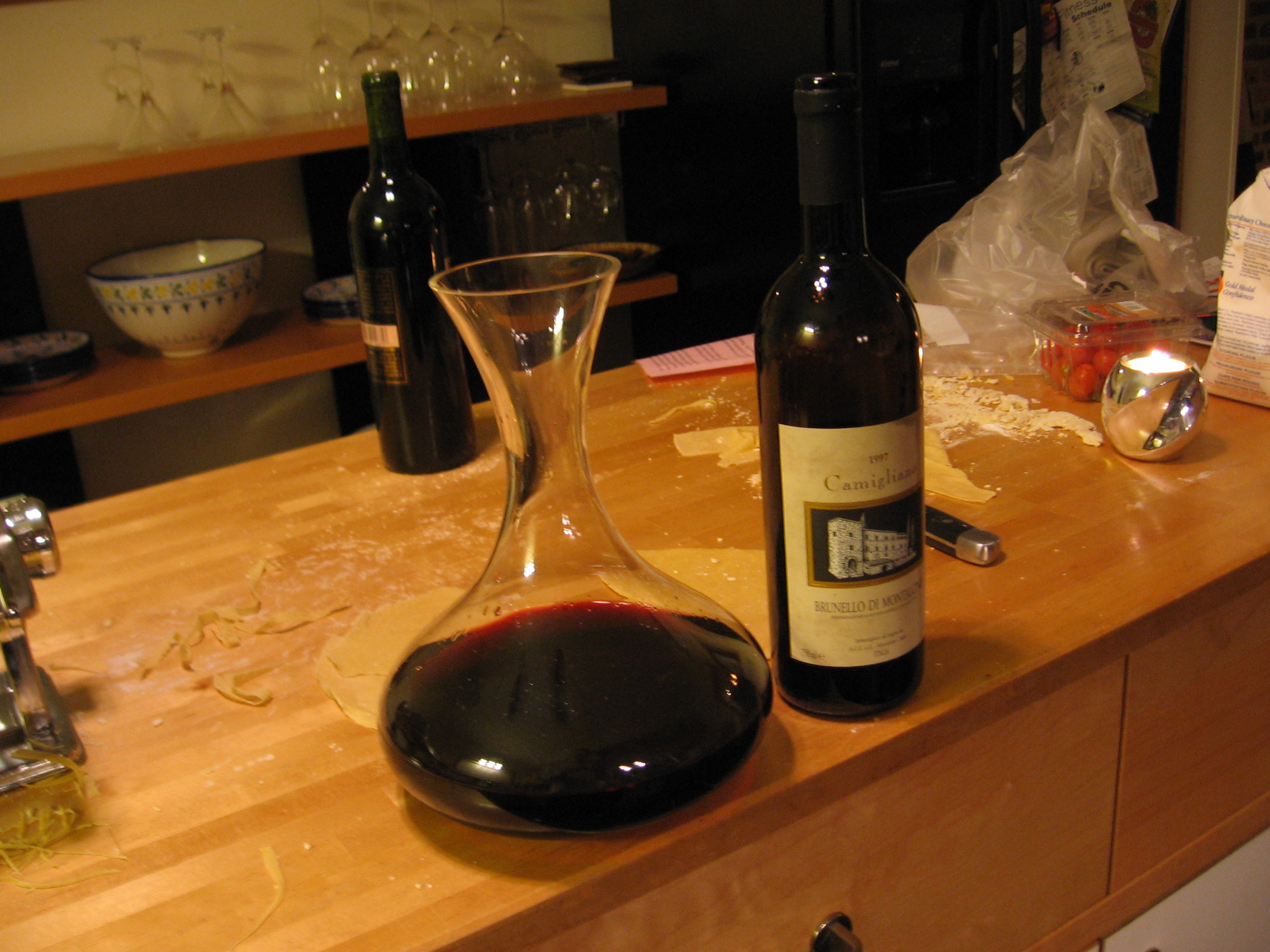 Italian wine Brunello made from Sangiovese in a decanter